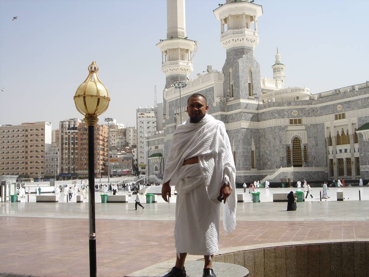 Wearing an ihram to perform umrah in the Grand Mosque in Makkah, Saudi Arabia. Within the vicinity of the Grand Mosque in Makkah, Saudi Arabia